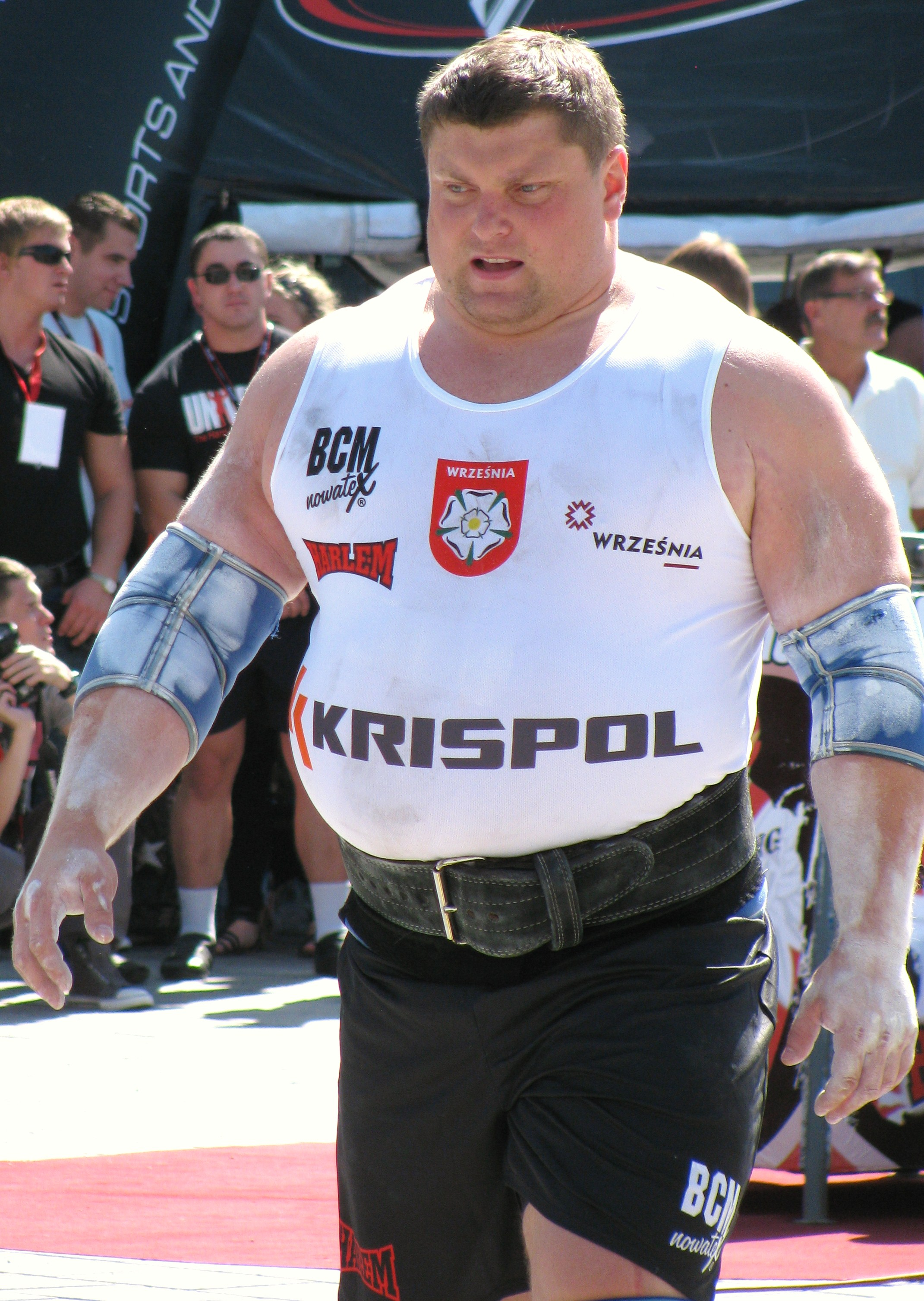 Žydrūnas Savickas - the Champion (the top strength athlete from Lithuania).